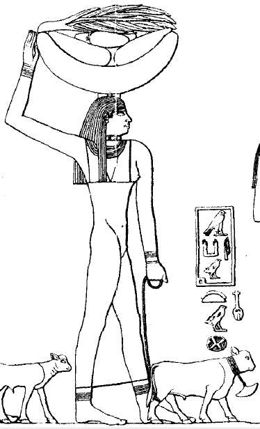 Personified agricultural estate of pharaoh Menkauhor as depicted on the south wall of the tomb of Ptahhotep II in Saqqara.